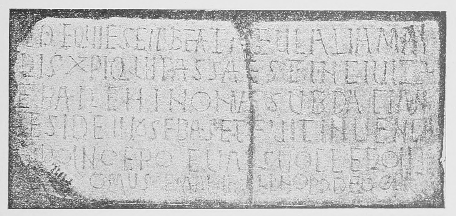 Plaque remembering the found of Eulalia's body in 878 in St. Mary's from where it was afterwards moved to the shrine dedicated to Eulalia in the crypt of Barcelona Cathedral. The plaque was first located at the shrine and later moved to a museum. Transcription of the inscription as published by A. Hübner: requiescit beata Eulalia mar[ty]ris Chr(ist)i, qui passa est in civitate Barchinona sub Daciano preside II id(u)s F(e)b(ruari)as et fuit inventa [a Fr]odoino ep(iscop)o cum suo clero in domu s(an)c(t)e Marie k(a)l(endis) No(vem)br(is) deo gra(tia)s. The plaque refers to Frodoino who was bishop in Barcelona from 861 to 890.